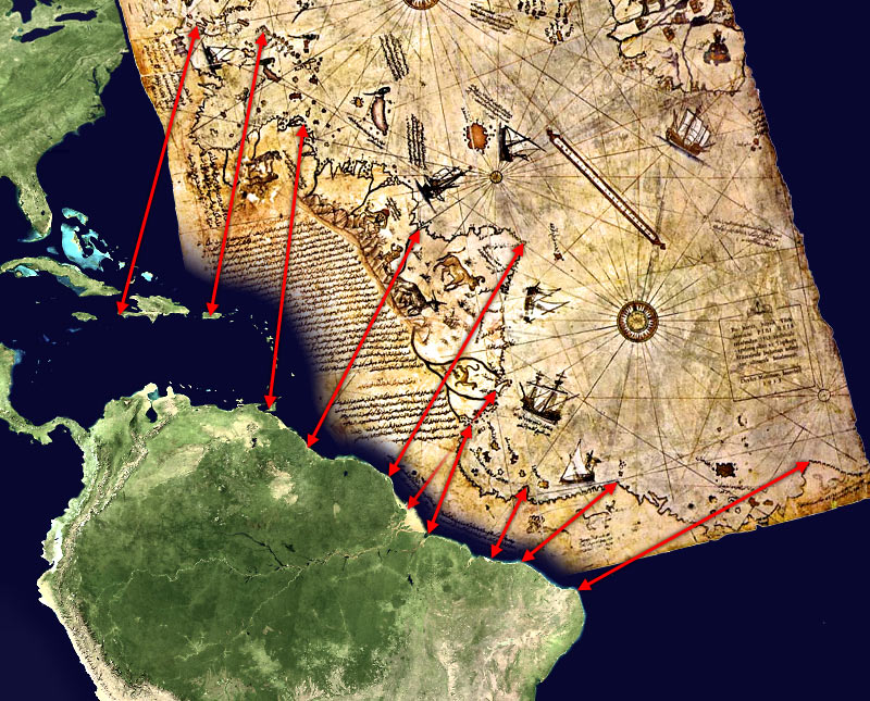 Possible interpretation of the Piri Reis map. Middle and south america on the left, north africa in the upper right, south atlantic ocean in the middle. An alternate (and more likely) interpretation of those ancient map can be found here: File:Piri Reis map interpretation.jpg